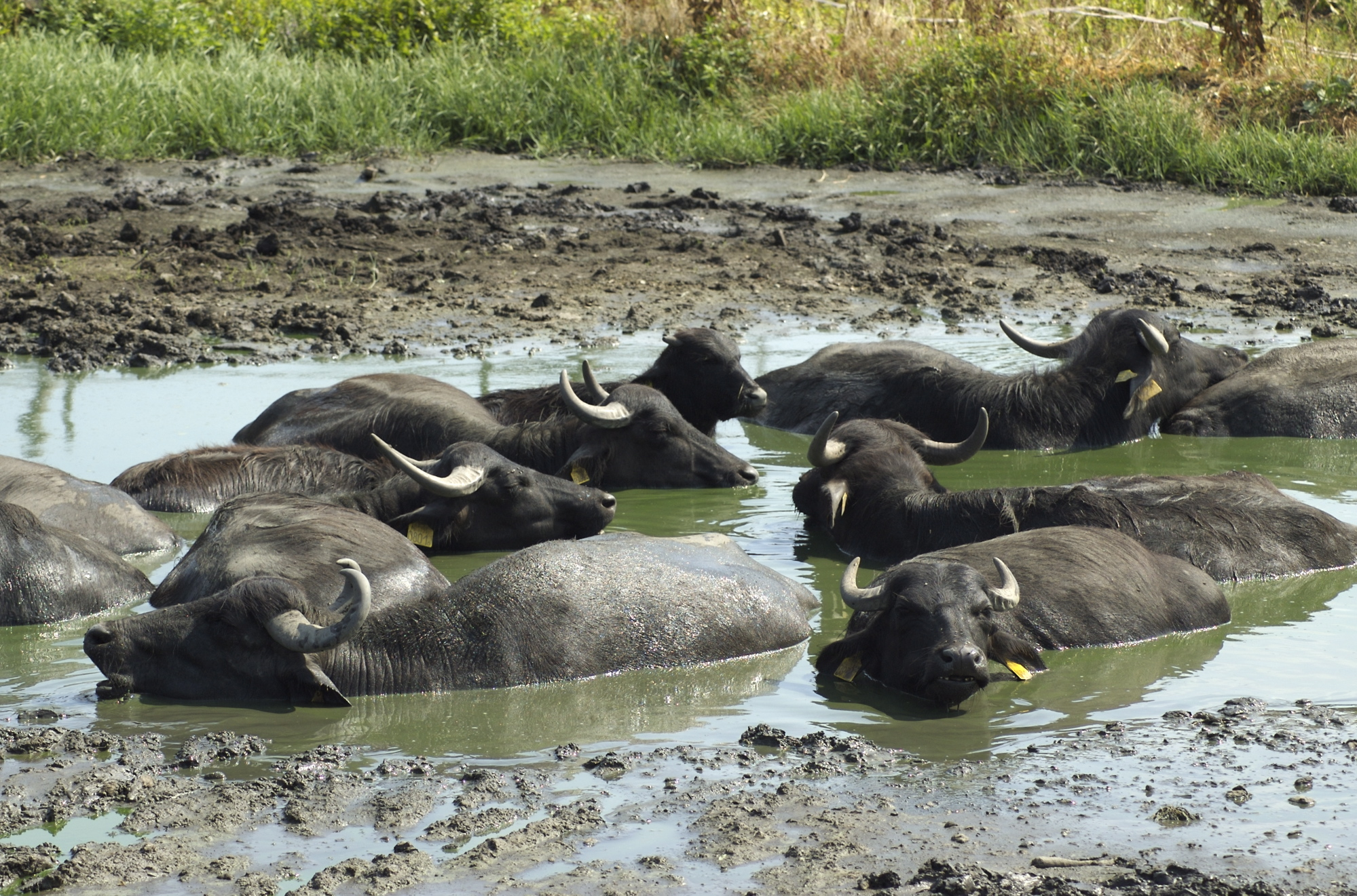 Water buffaloes in the Kápolnapuszta Buffalo Reserve, Hungary